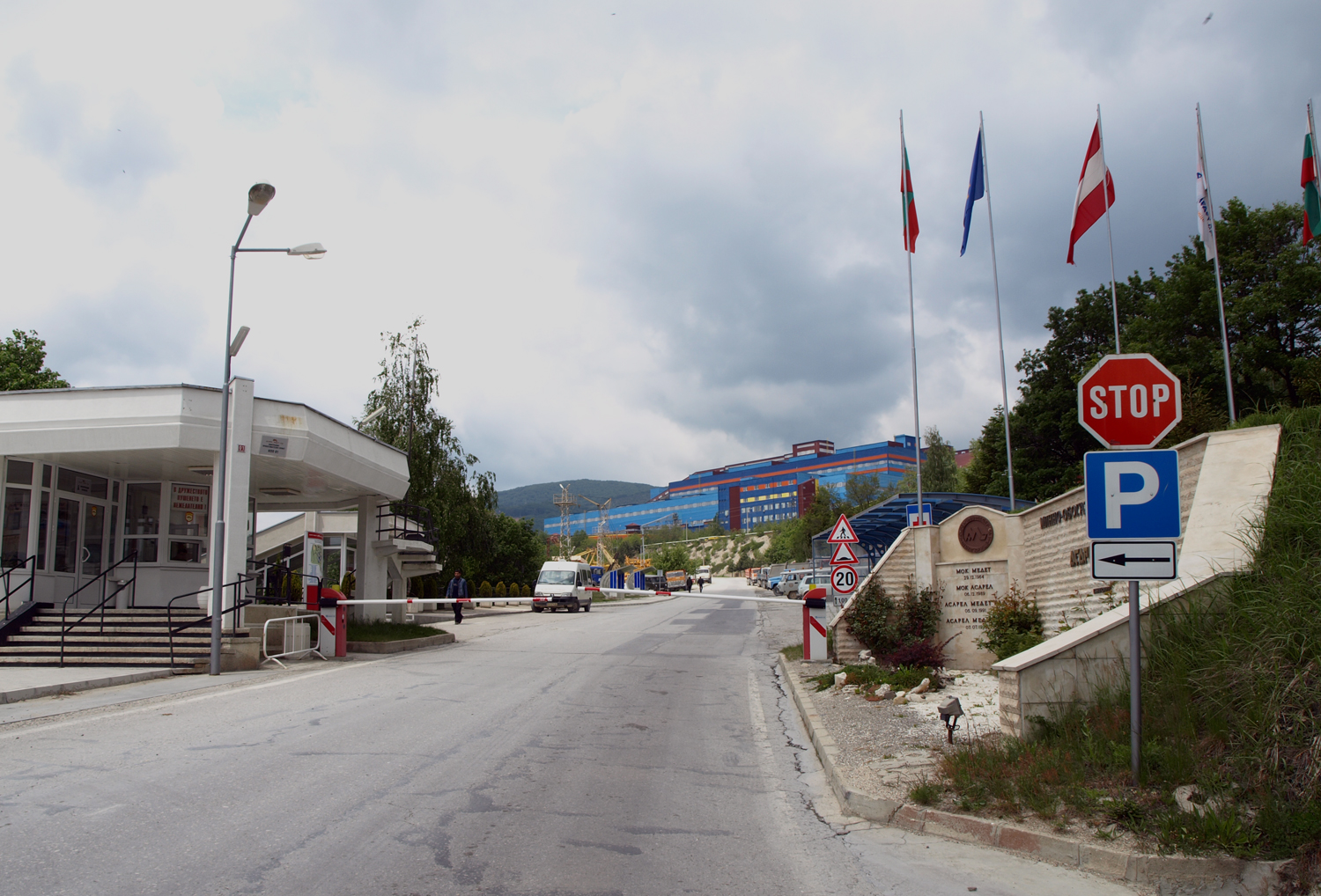 Asarel-Medet Entrance, Panagyurishte, Bulgaria